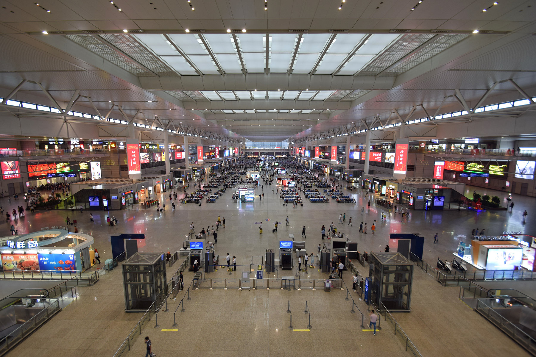 Concourse of Shanghai Hongqiao Railway Station